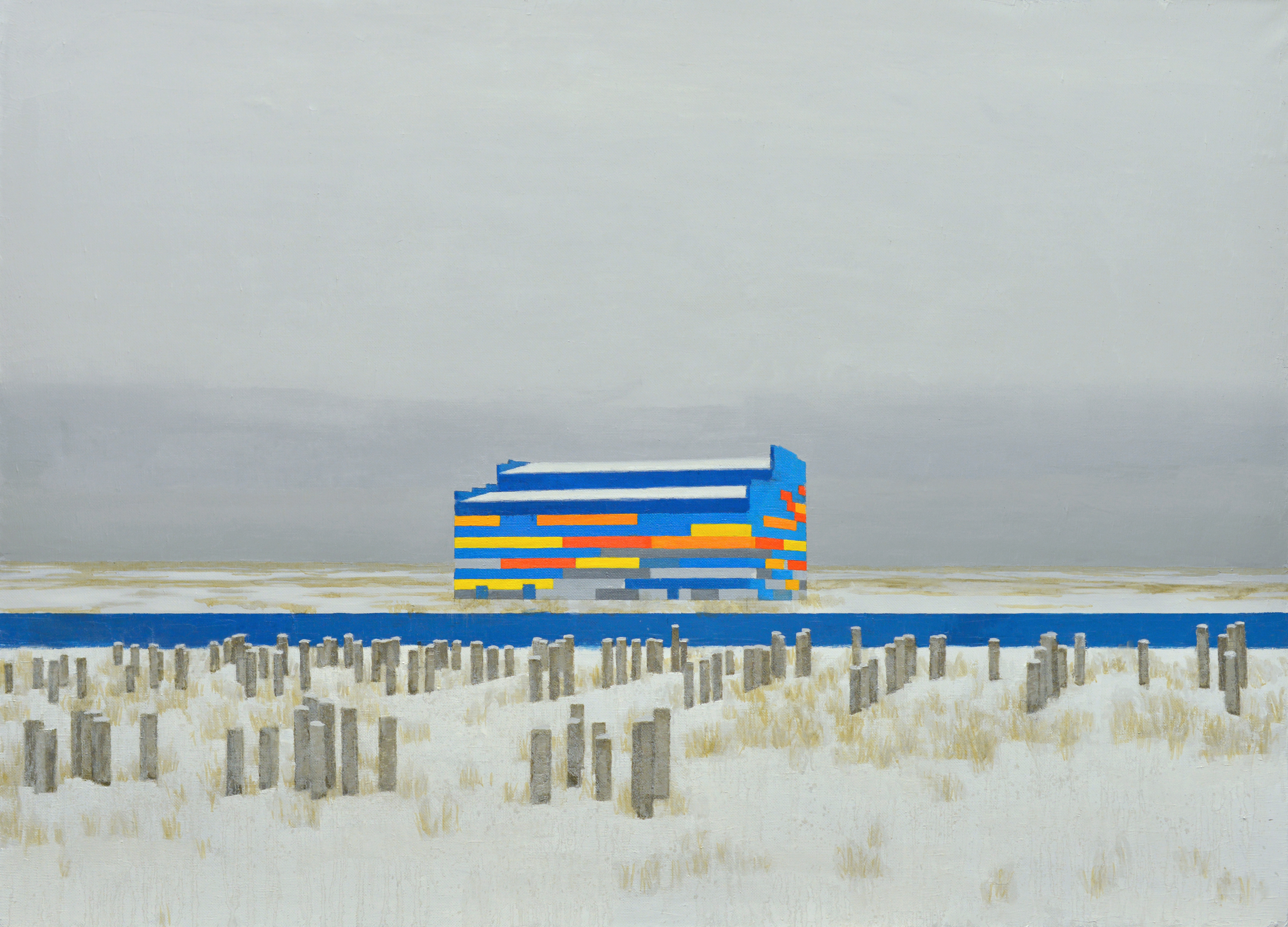 oil on canvas, 130х180cm The State Tretyakov Gallery